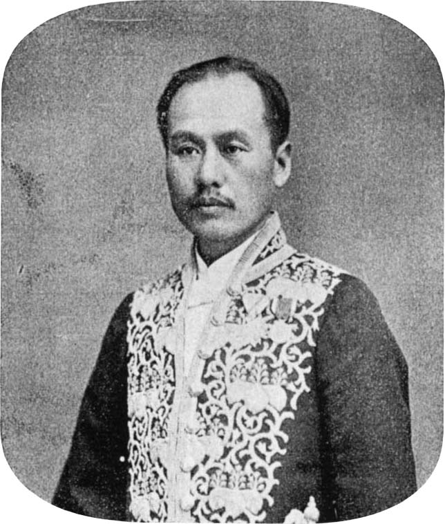 Mr. Shūji Isawa, president of the League for Establishing Free Education.